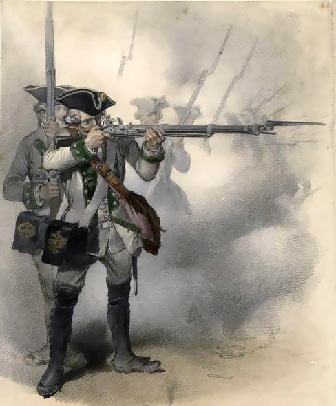 Austrian infantry in 1740